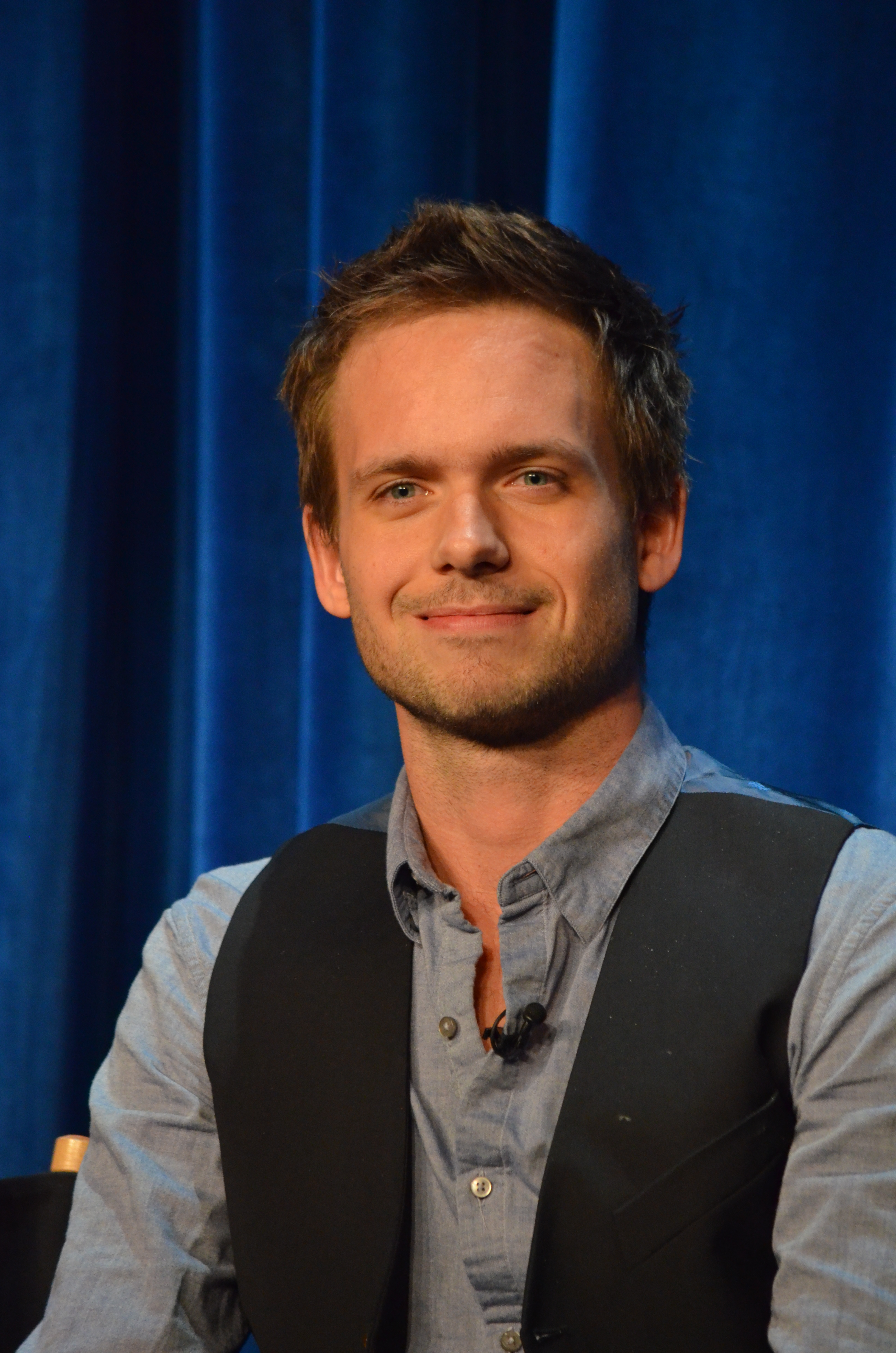 Patrick J Adams at a promotional event for the TV show Suits